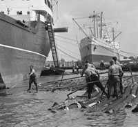 Men at work in Zaandam Harbour (Holland) 50 years ago